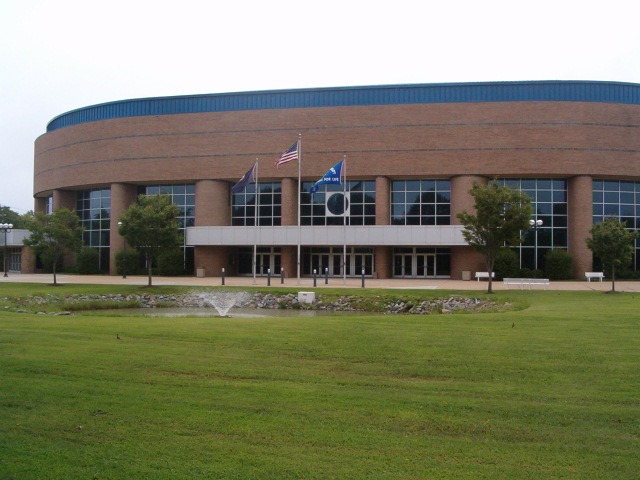 The Hampton University Convocation Center on the Campus of Hampton University